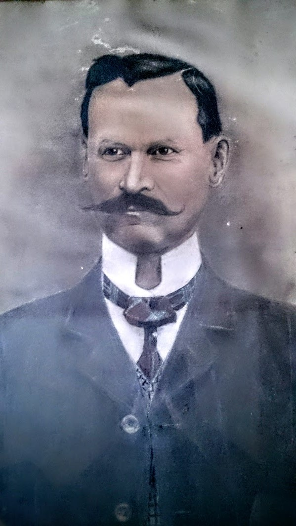 Portrét otce. Autor Jaroslav Vítek